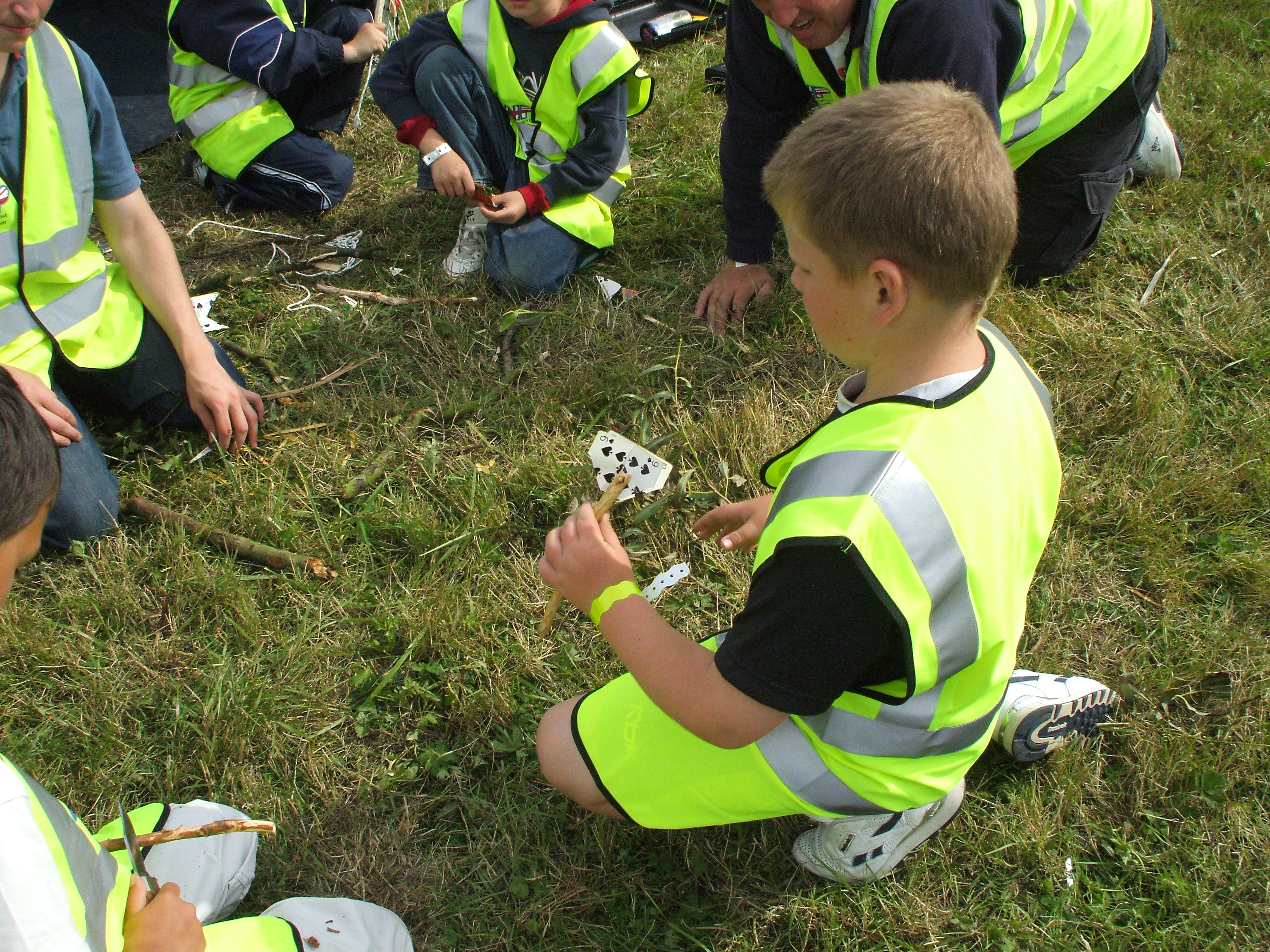 YBNP members making Dutch arrows